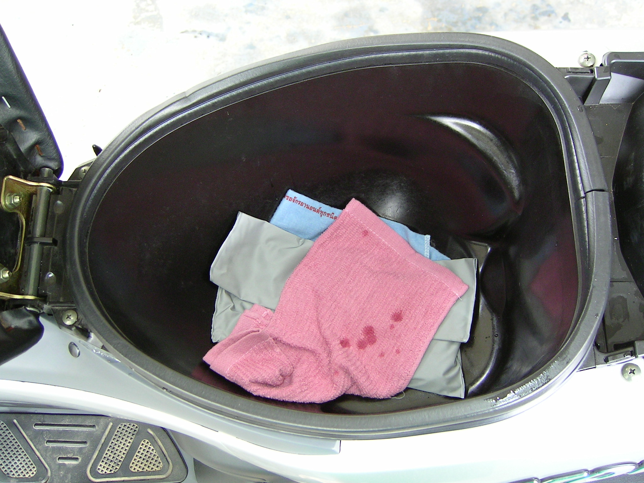 Under seat helmet compartment of Yamaha Nouvo 115cc scooter, made in Thailand.